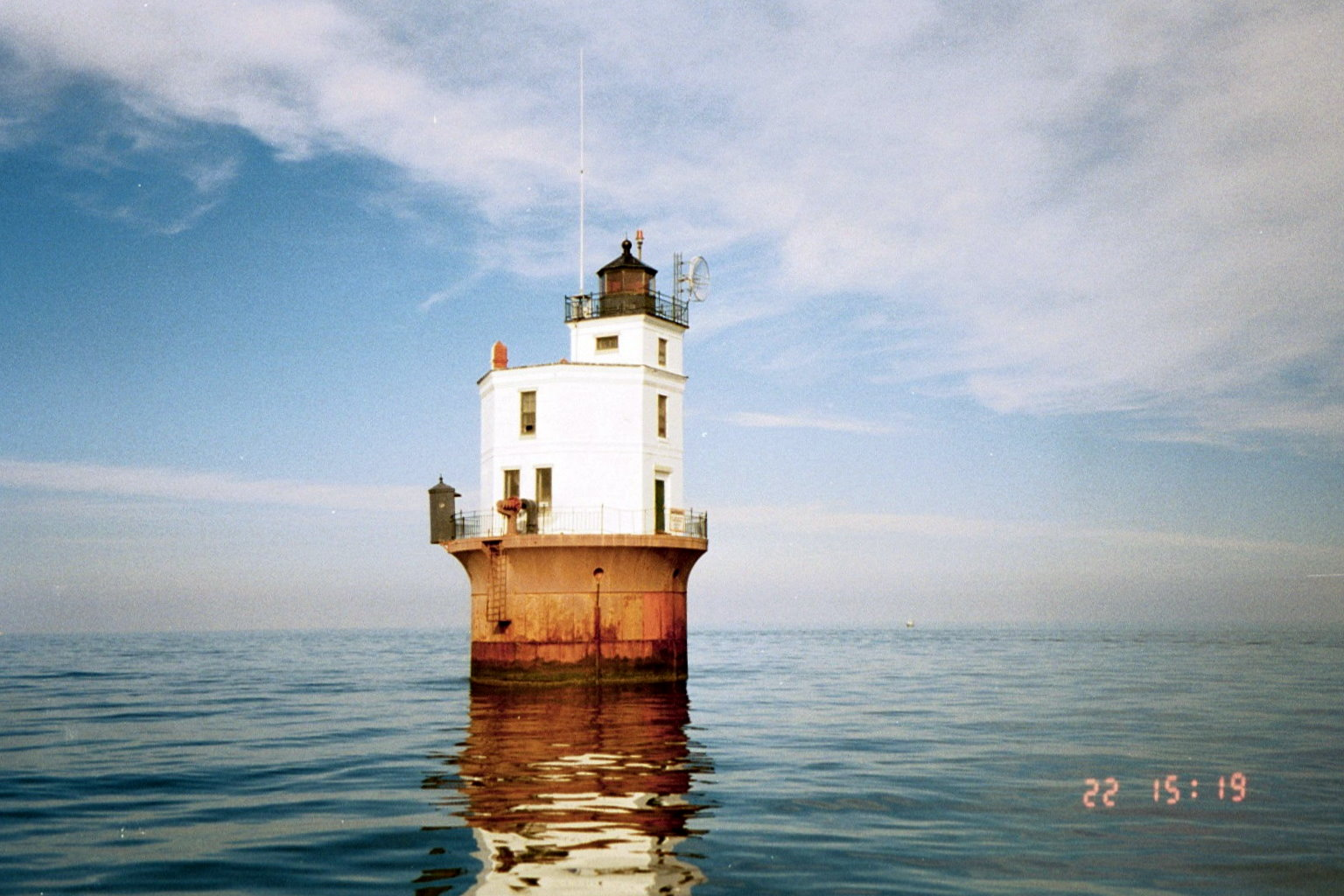 Smith Point Light Station